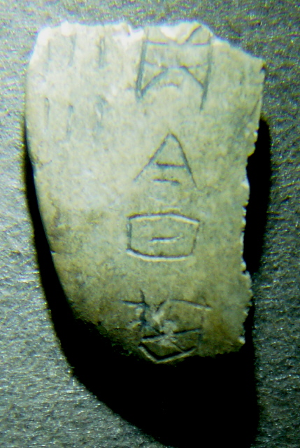 Oracle bone stating: 貞：今日，其雨？ which can be translated to: Divination: today, will it rain? According to the exhibit caption, the Chinese words or phrases for "Sun" can be found on this oracle bone fragment. Another wikipedian interpreted the writing and suggested the character is actually "Day". In Chinese "Sun" and "Day" shares the same character. This picture was taken in July 2004 from an exhibit at Chabot Space and Science Center in Oakland, California. The caption for the exhibit read: Oracle Bones Shang Dynasty (c. 16th - 11th century BCE) Over 3,000 years ago, the Chinese used animal bones to help make important decisions. To use an oracle bone, a diviner made two statements, one positive and one negative. Each oracle bone had two halves, a positive one and a negative one, with holes bored in each half. When the holes were heated with a burning stick, the bone cracked. The king would read the cracks to find the answers. No one knows exactly how the cracks were interpreted. Afterwards, information about the oracle was carved onto the bone.